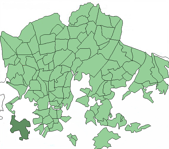 Districts of Helsinki city, Lauttasaari highlighted.